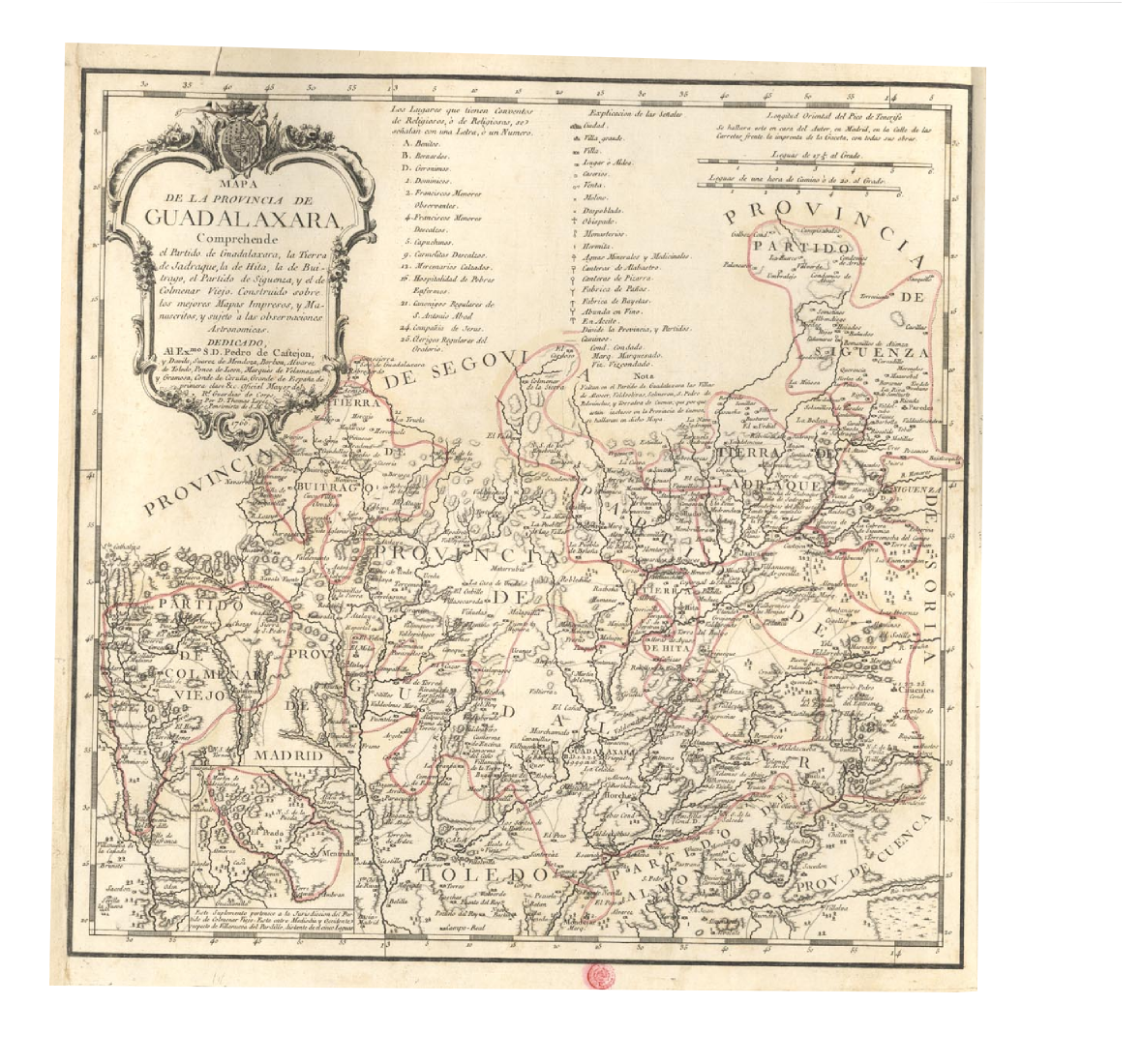 Map of province of Guadalajara (Spain), by Tomás López in 1766.